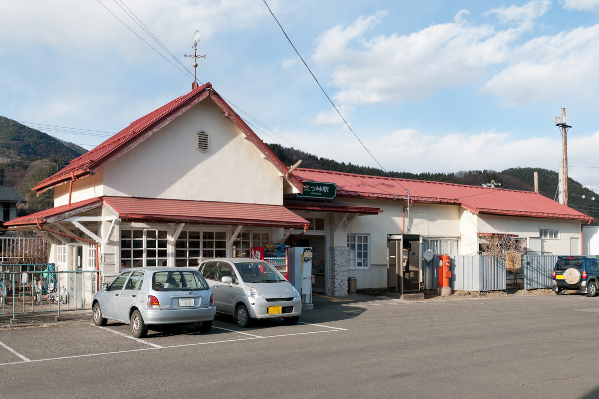 Exterior of Mitsutōge Station on the Fujikyuko Line in Yamanashi Prefecture, Japan